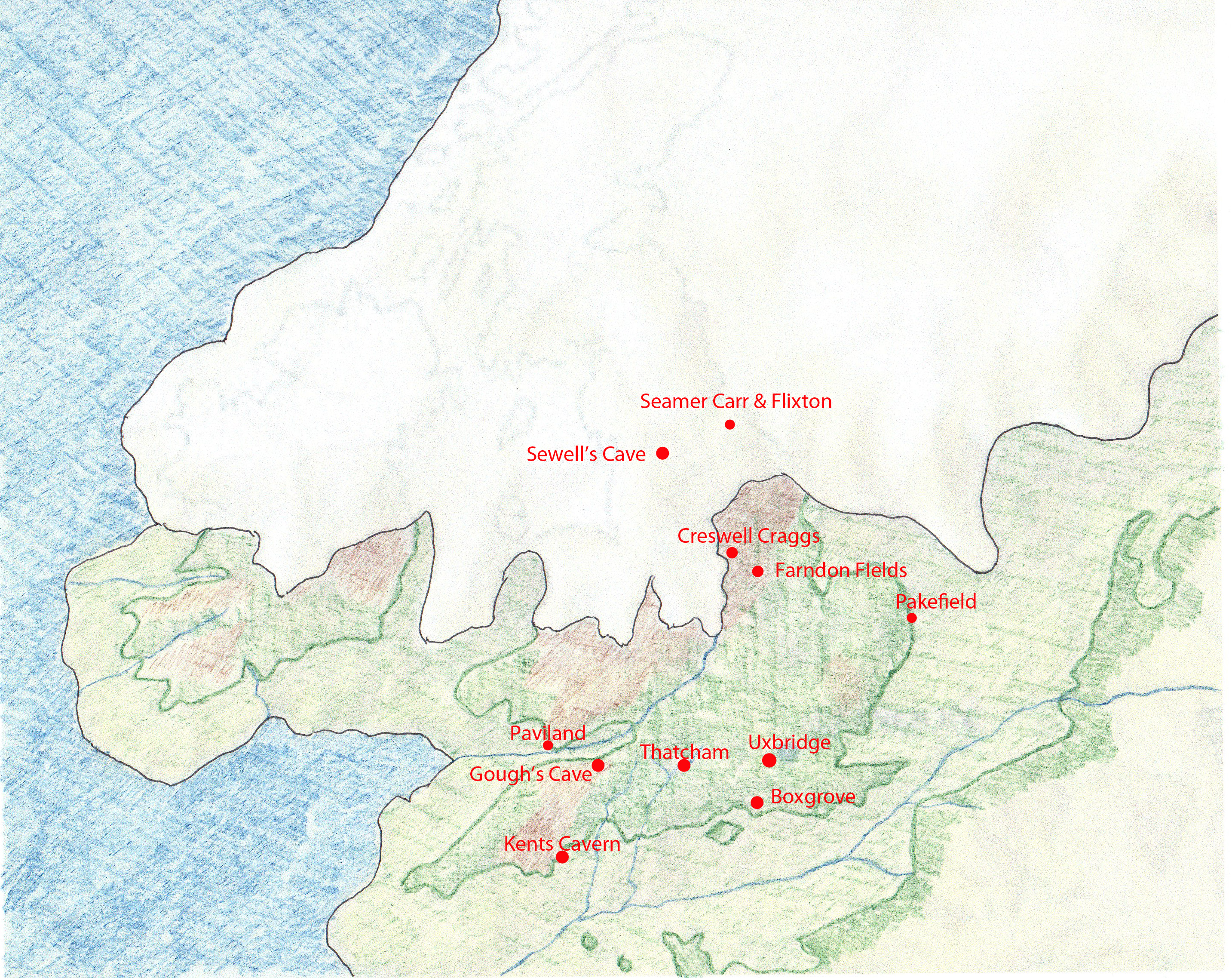 Map of the approximate locations of archaeological sites in the prehistoric Briton peninsular where horse remains have been uncovered dating from 700,000 BC to close of the last Ice Age